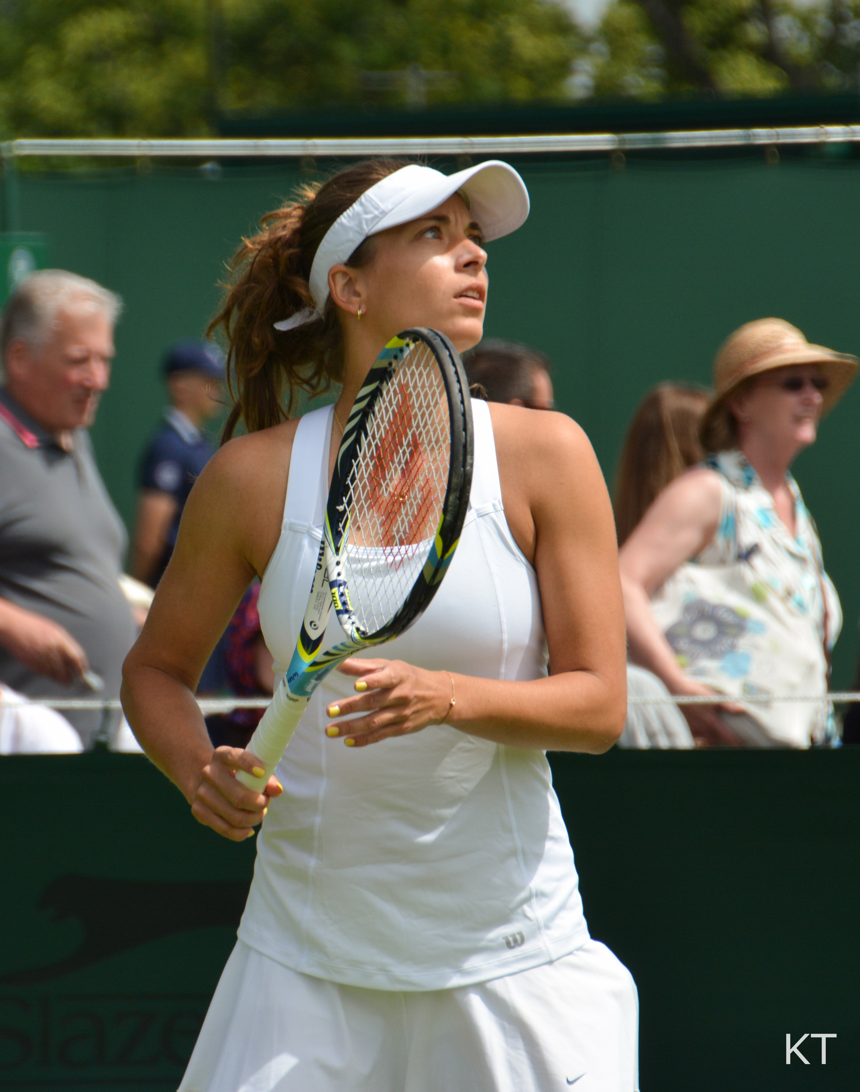 Day 1 of Wimbledon 2015.